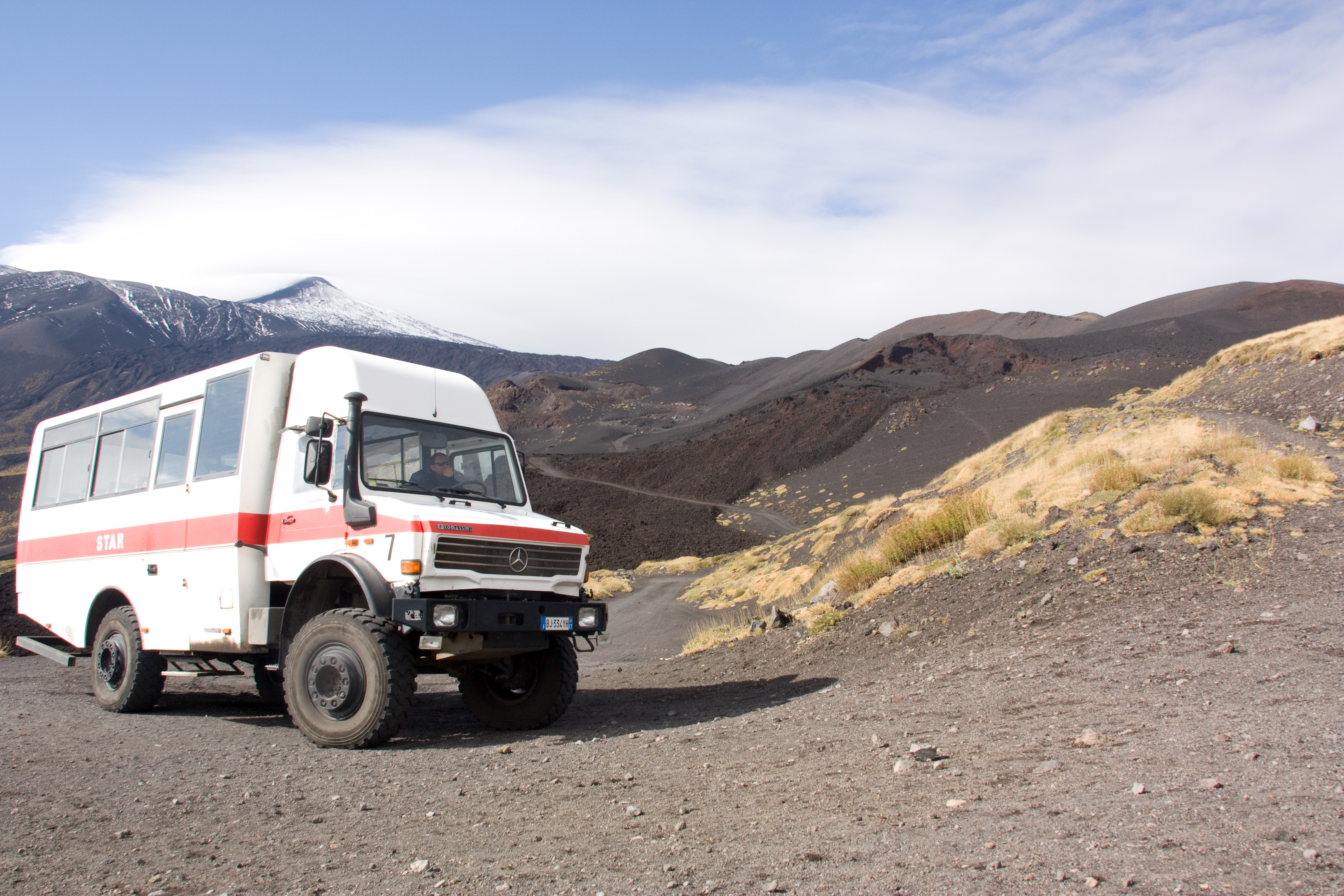 Unimog U2450L truck (Tomassini) in Italy.